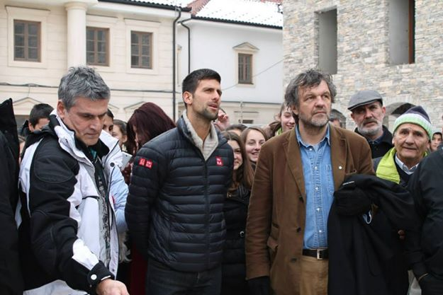 Novak Djokovic in visit to Andricgrad